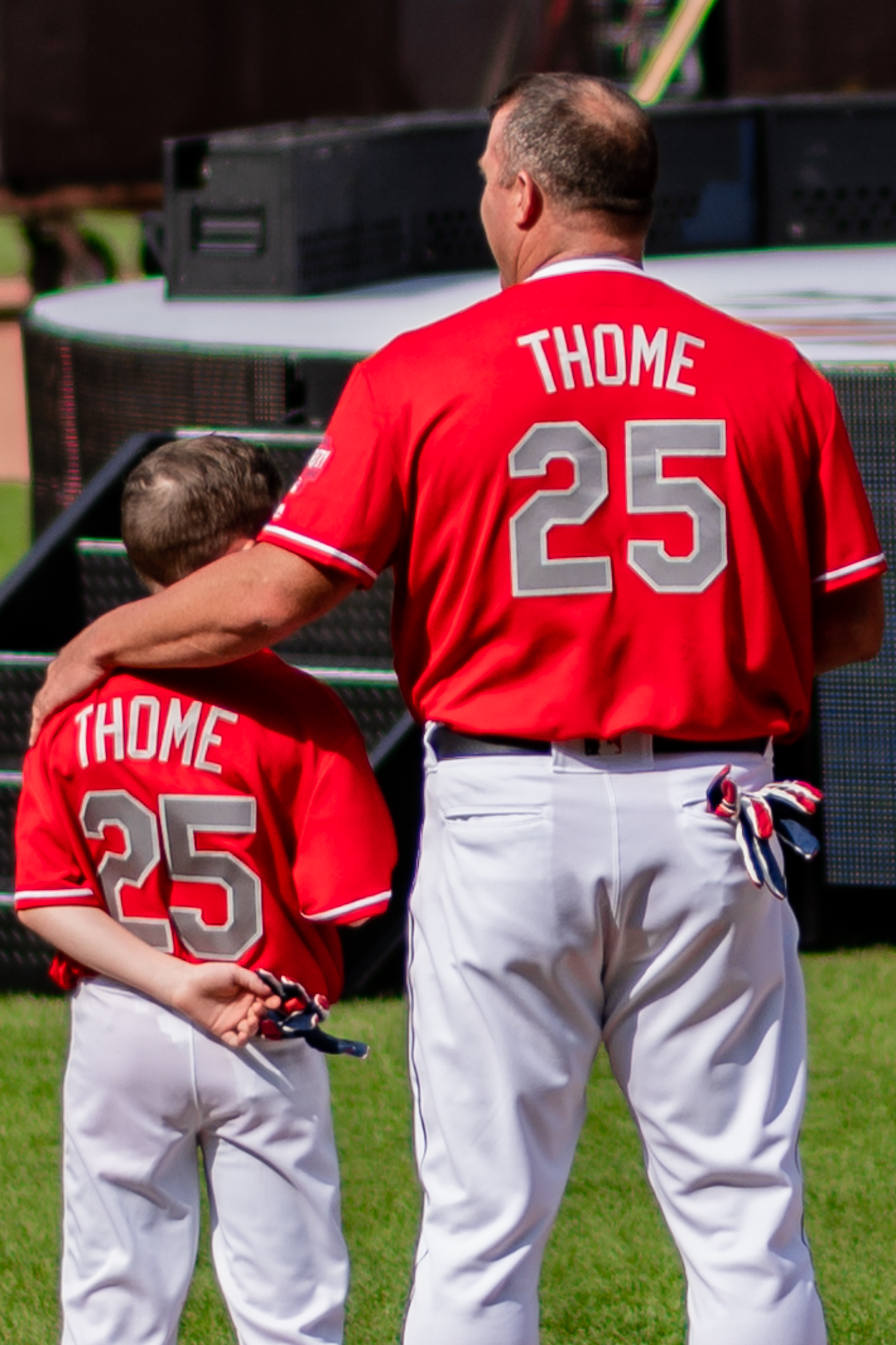 Landon and Jim Thome at the 2019 All-Star Legends & Celebrity Softball Game at Progressive Field in Cleveland